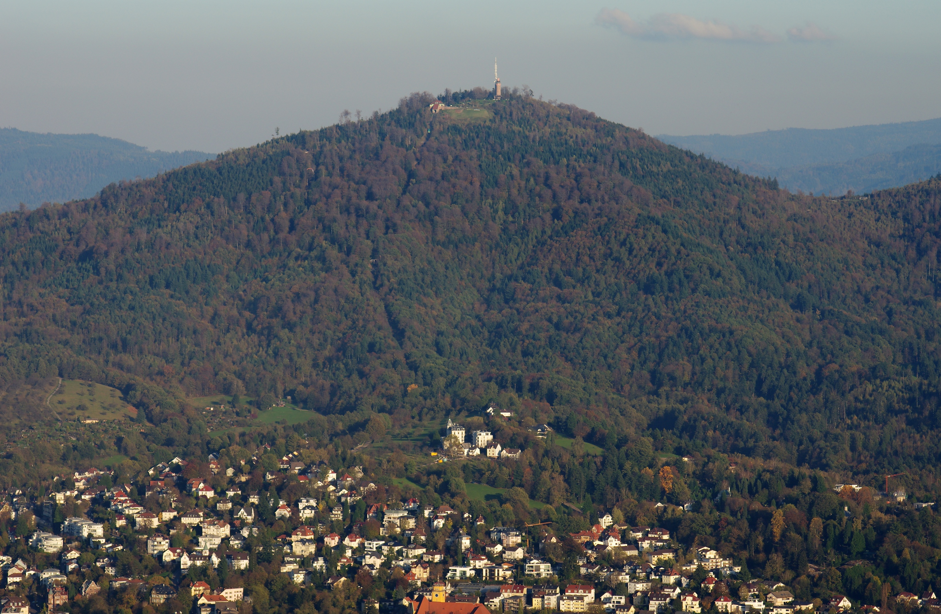 Mount Merkur and Baden-Baden seen from Fremersberg in late October 2013.